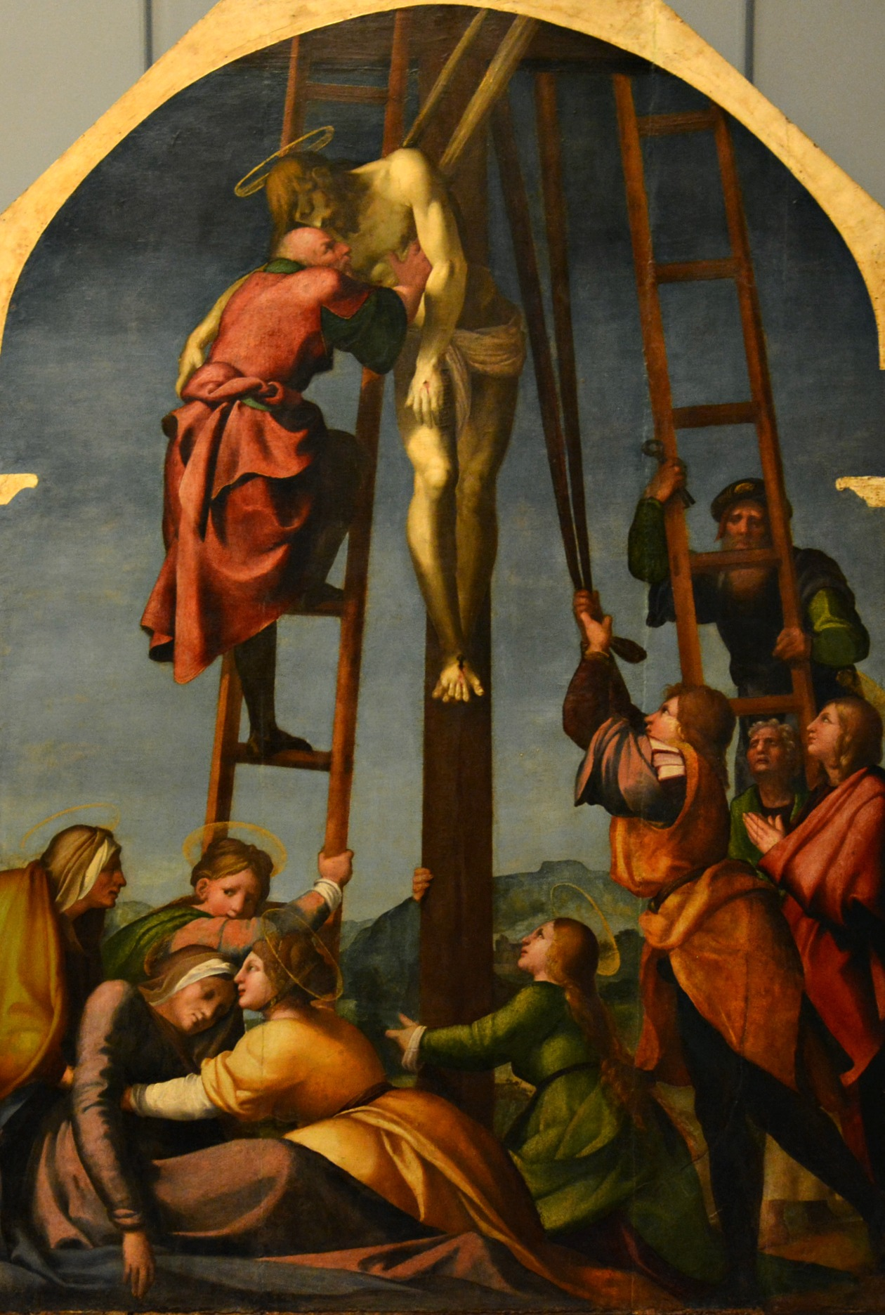 The Deposition